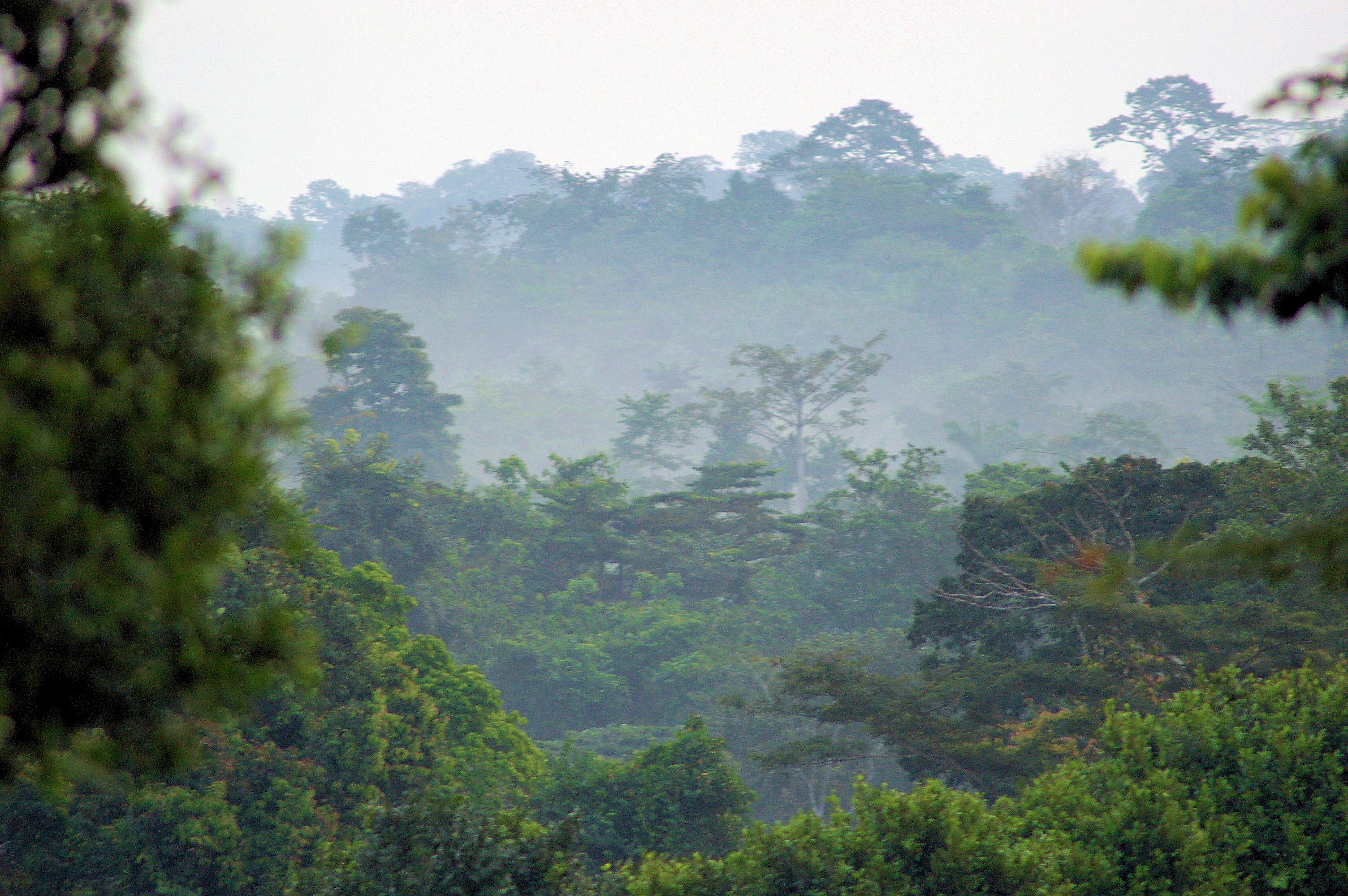 Forest and woodland landscape in uplands of Ashanti region, Ghana.